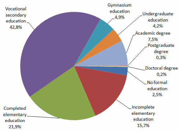 Croatia population - analysis of completed education (persons aged 15 and over), census 2001 data